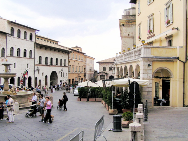 Central Place in Assisi